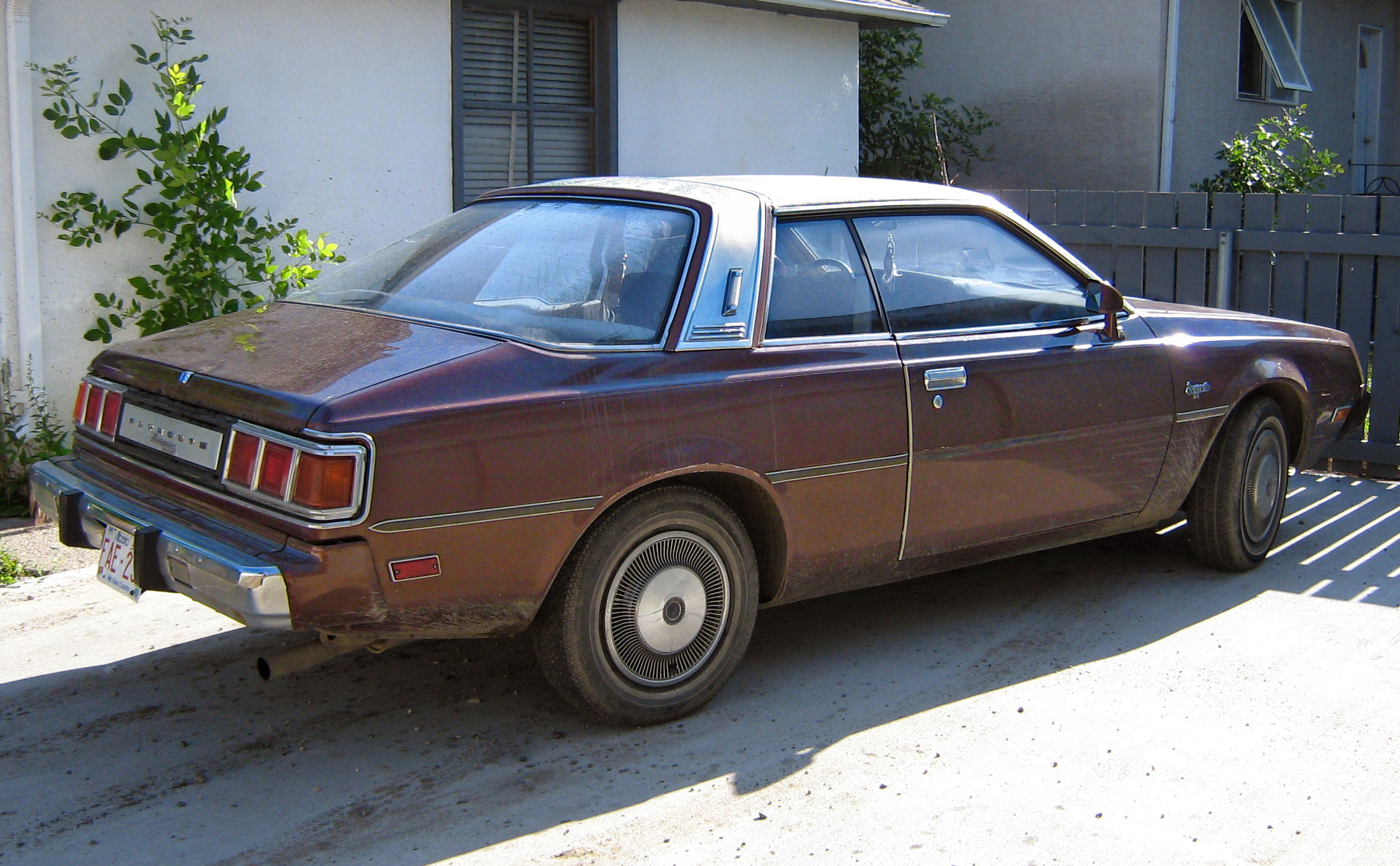 Plymouth Sapparo